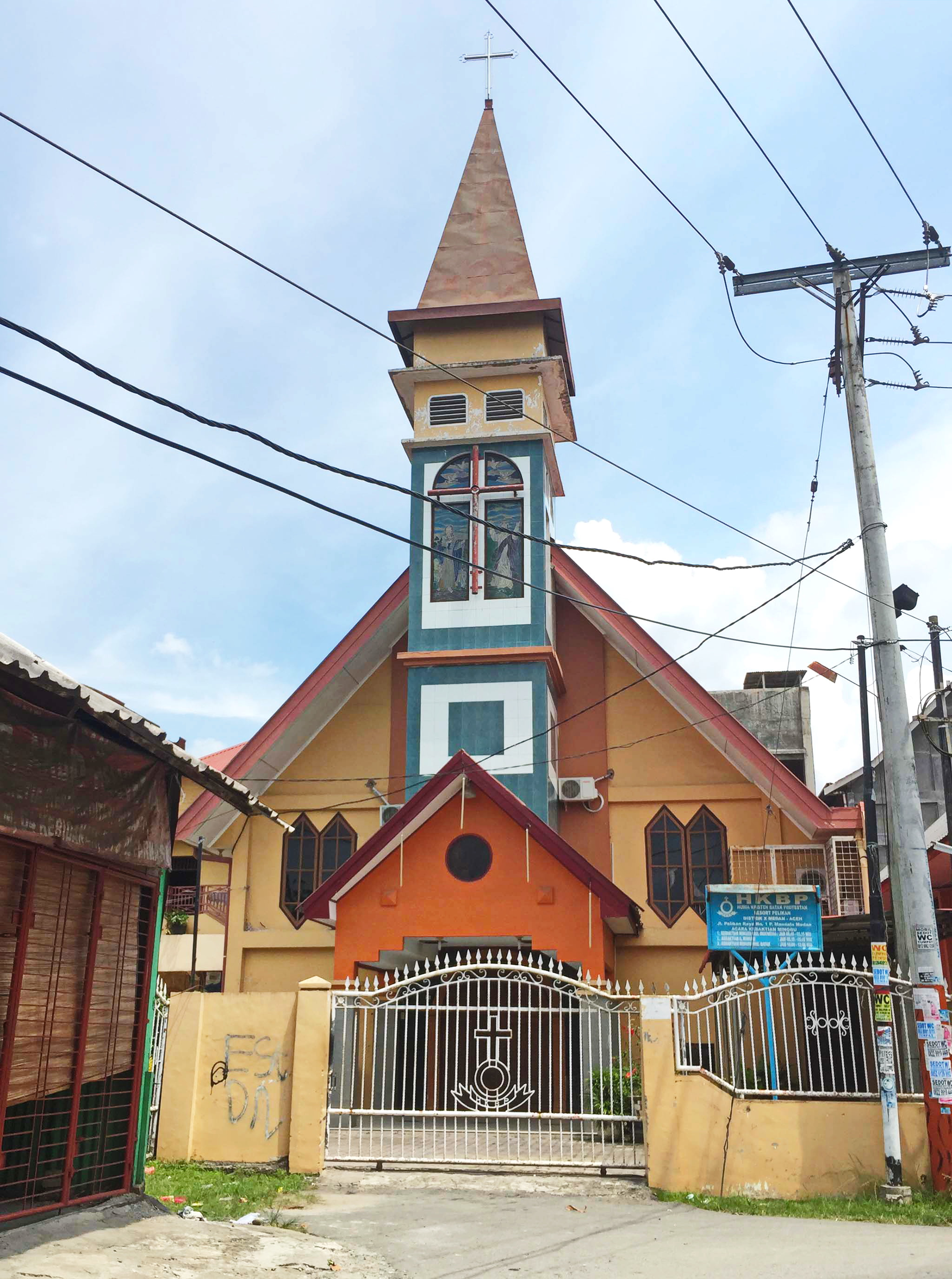 HKBP Pelikan, Res. Pelikan Church in Tegal Sari Mandala II, Medan Denai, Medan